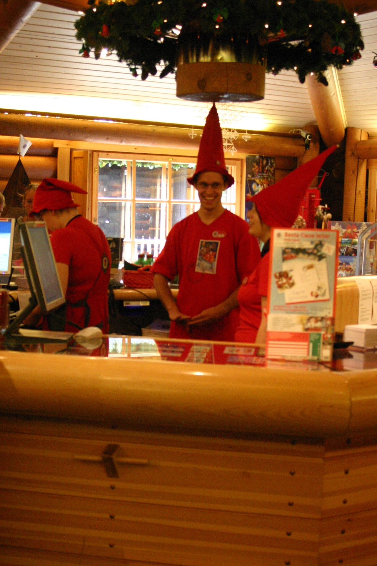 Elves working in post office at Santa Claus' Workshop Village (Joulupukin Pajakyla) in Rovaniemi, Finland.